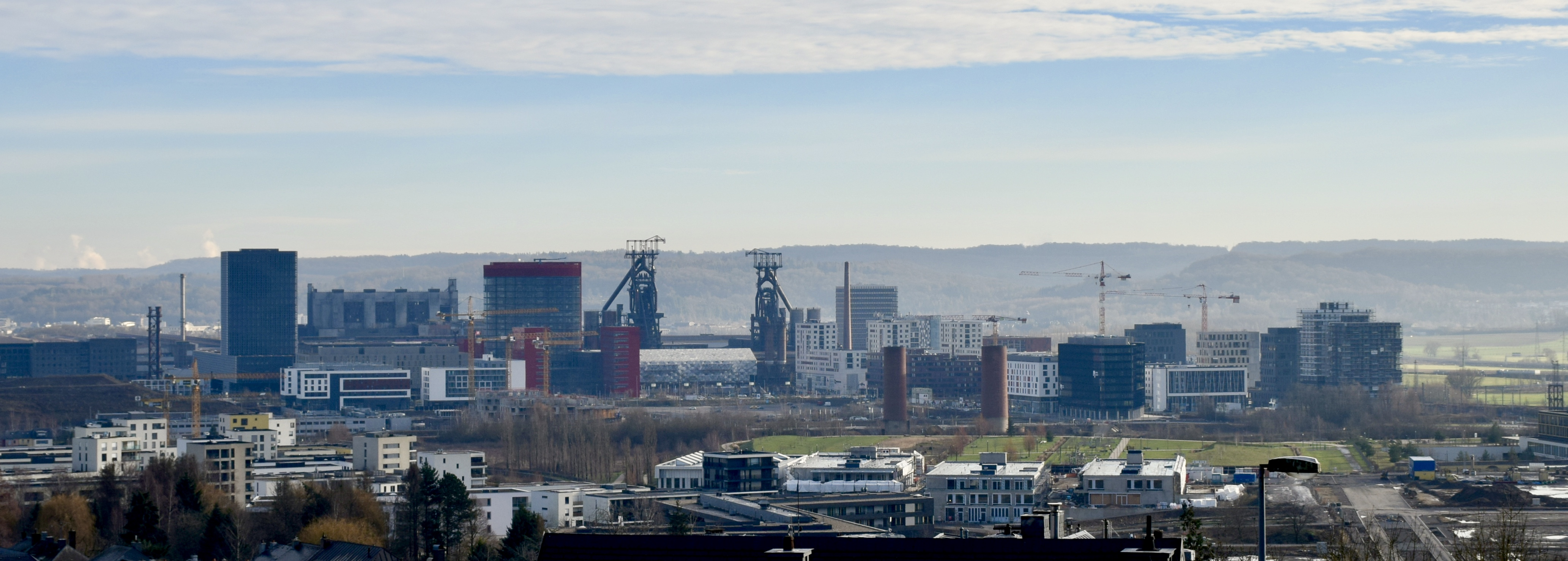 Panorama of Belval, Luxembourg.